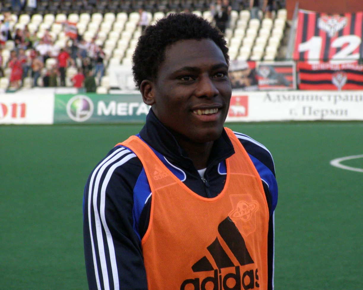 Solomon Okoronkwo warming up for FC Saturn Ramenskoye